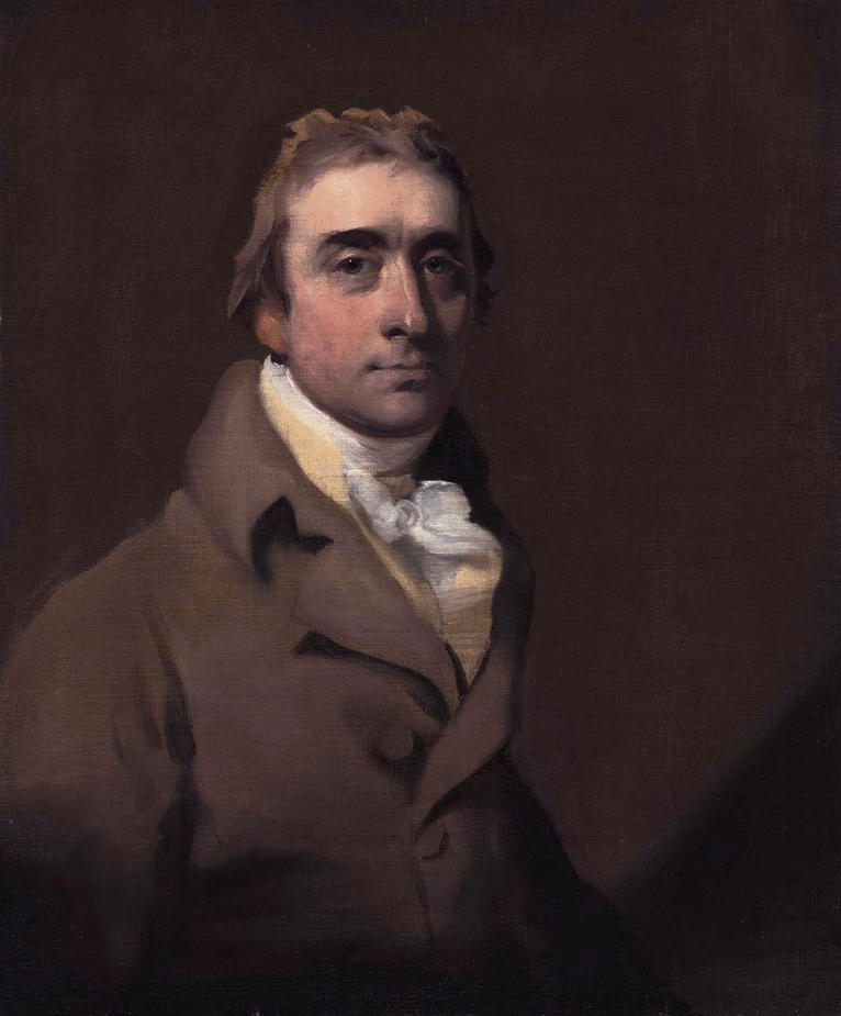 Robert Dundas, 1st Bt., of Beechwood (1761-1825) oil on canvas 76.8 x 64.7 cm.